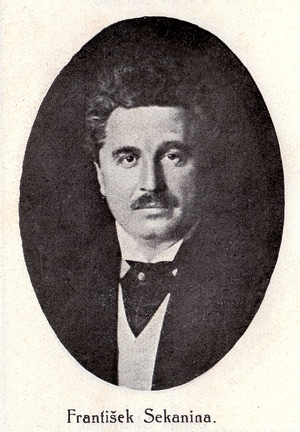 František Sekanina (1875–1958), czech poet and writer